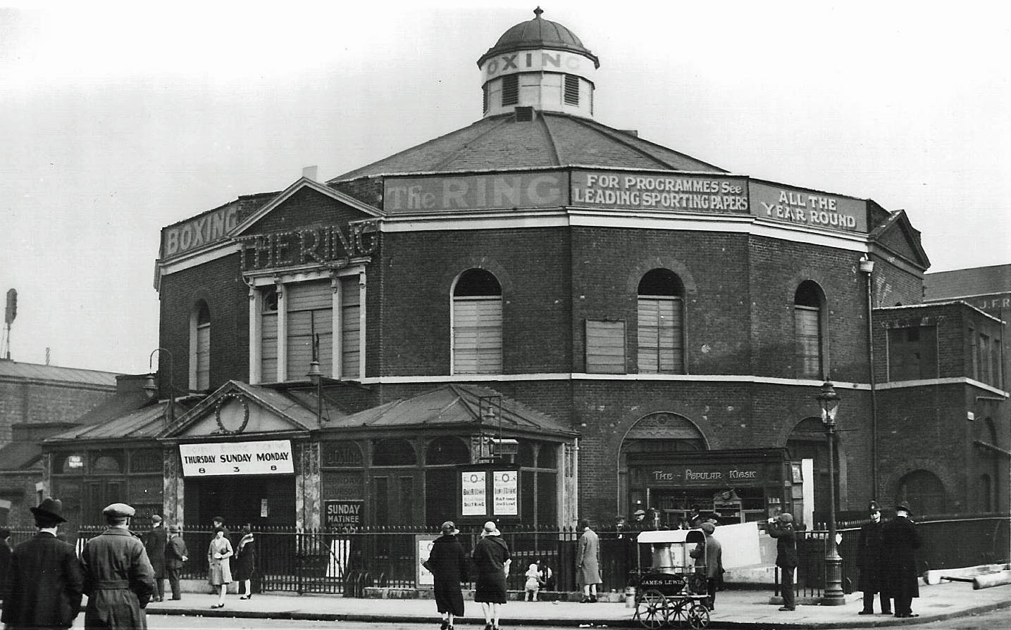 This is November 1929 at Blackfriars Road junction with Union Street, Southwark. The Ring was a famous early 20th Century boxing venue in south London. Originally built as an Independent Methodist and Congregational Chapel in 1783 by the Rev. Roland Hill who said that he built an octagonal Chapel so the Devil couldn't hide in the corners. Rev. Hill shares his name with another famous Victorian who reformed the postal system, they were not related as far as I can tell. In the 1880s the Chapel fell into disuse and in 1910 it was bought by a former boxer Dick Burge who together with his wife Bella, turned it into a boxing and later a wrestling venue attended by the rich and not so rich of south London, the Prince of Wales was a patron. In 1940 the building was damaged during the Blitz and in 1941 was completely destroyed in an air raid. The site is now occupied by a modern office building named Palestra House, the Greek name for a venue where wrestling takes place. The two Police officers would have been stationed at Southwark Police Station.